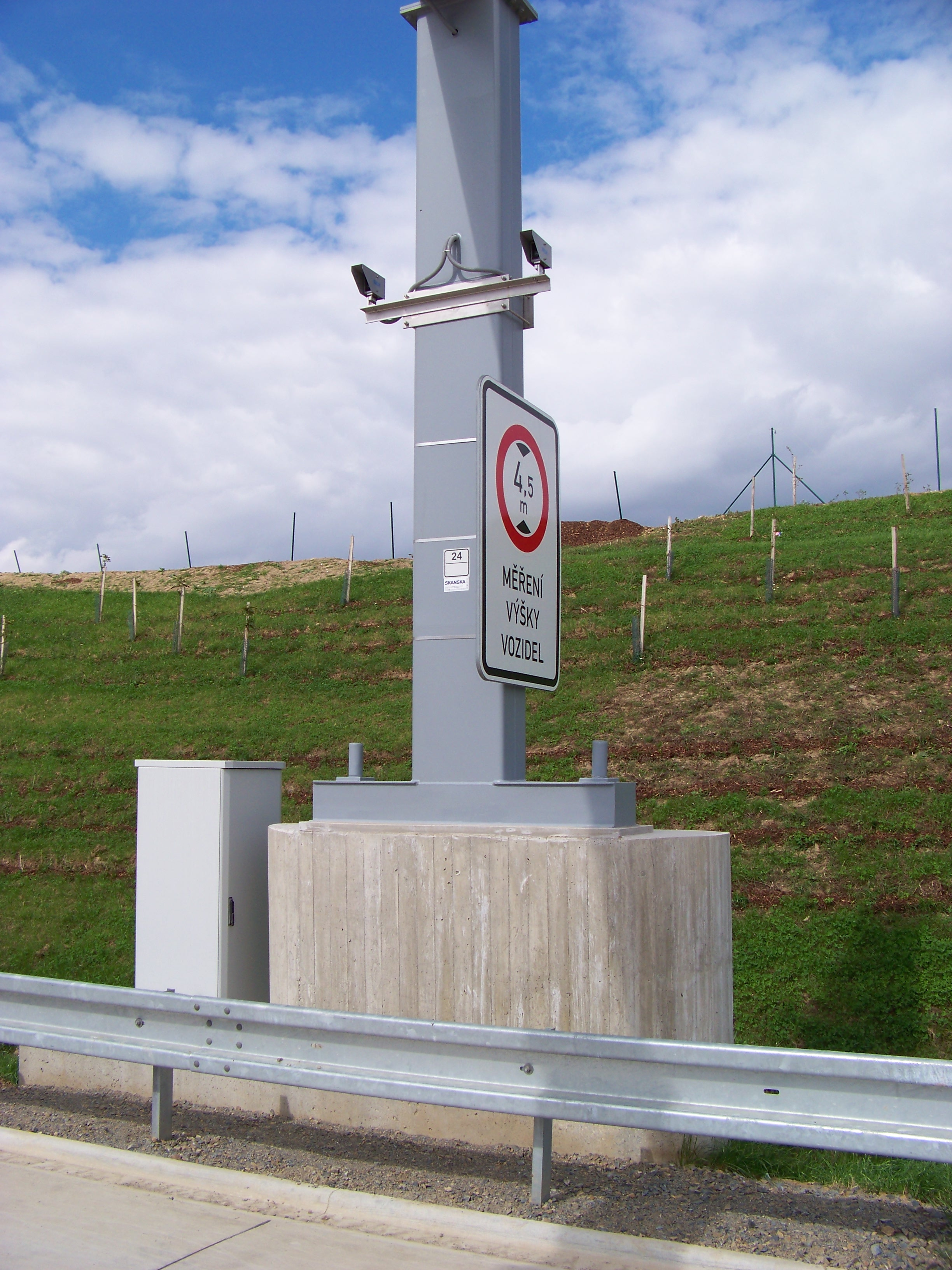 Prague-Cholupice, the Czech Republic. Open Doors Day of the new section of Prague Beltway. Vehicle high measurement.